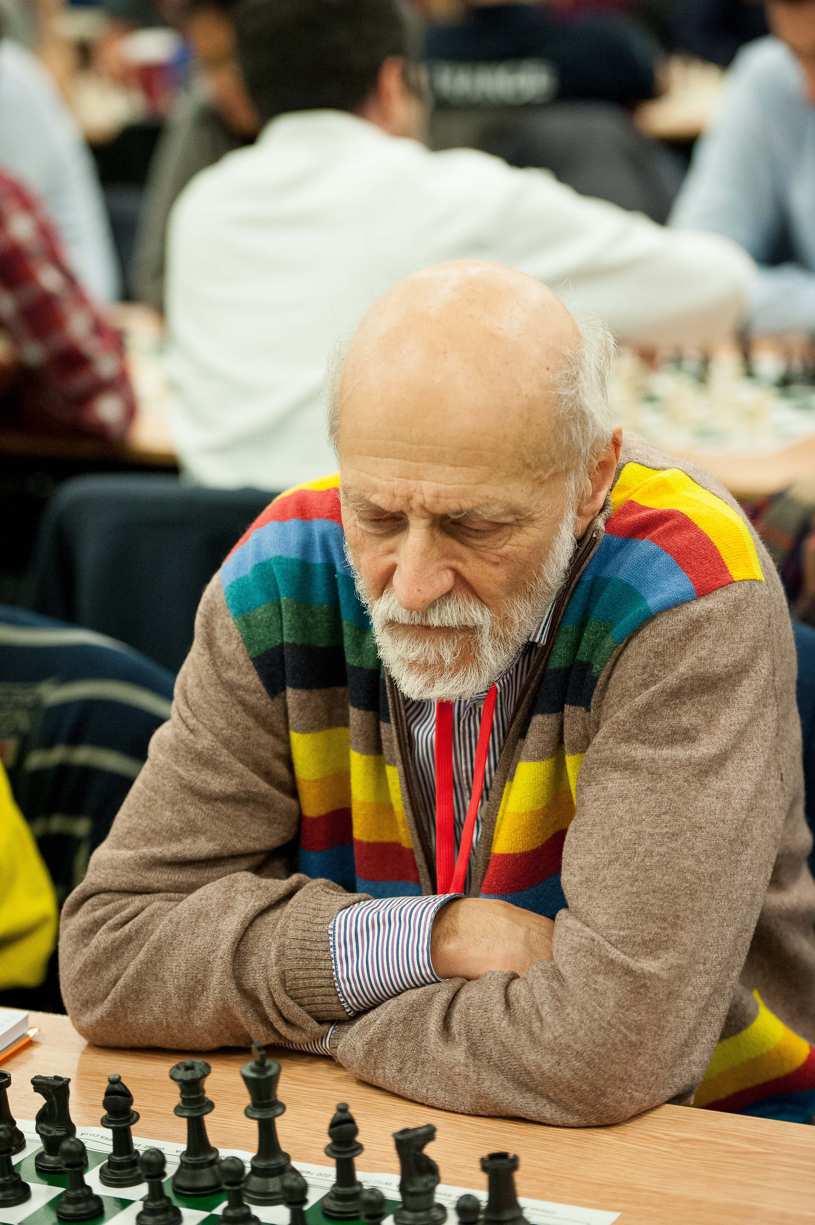 IM Michael Basman